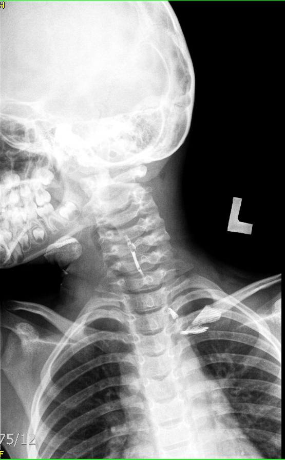 Bilateral Branchial Cleft Sinus fistulography